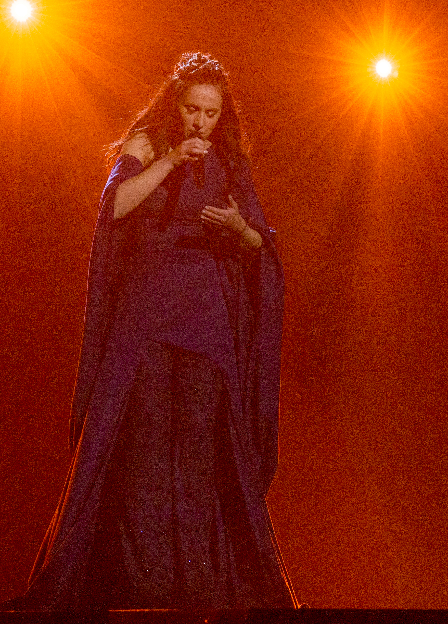 Jamala representing Ukraine with the song "1944" during a rehearsal before the second semi final of the Eurovision Song Contest 2016 in Stockholm. (Help translate this text)